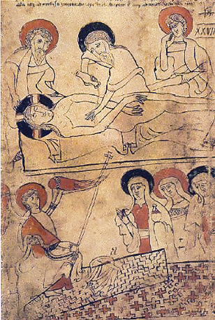 Codex Pray